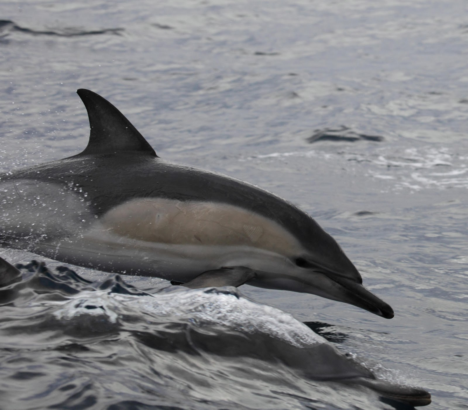 Short-beaked common dolphin (Delphinus delphis), East of Eaglehawk Neck, Tasmania, Australia